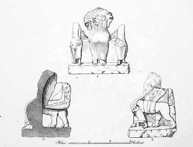 Statue, found at Solunt, Sicily, as published 1841, drawing